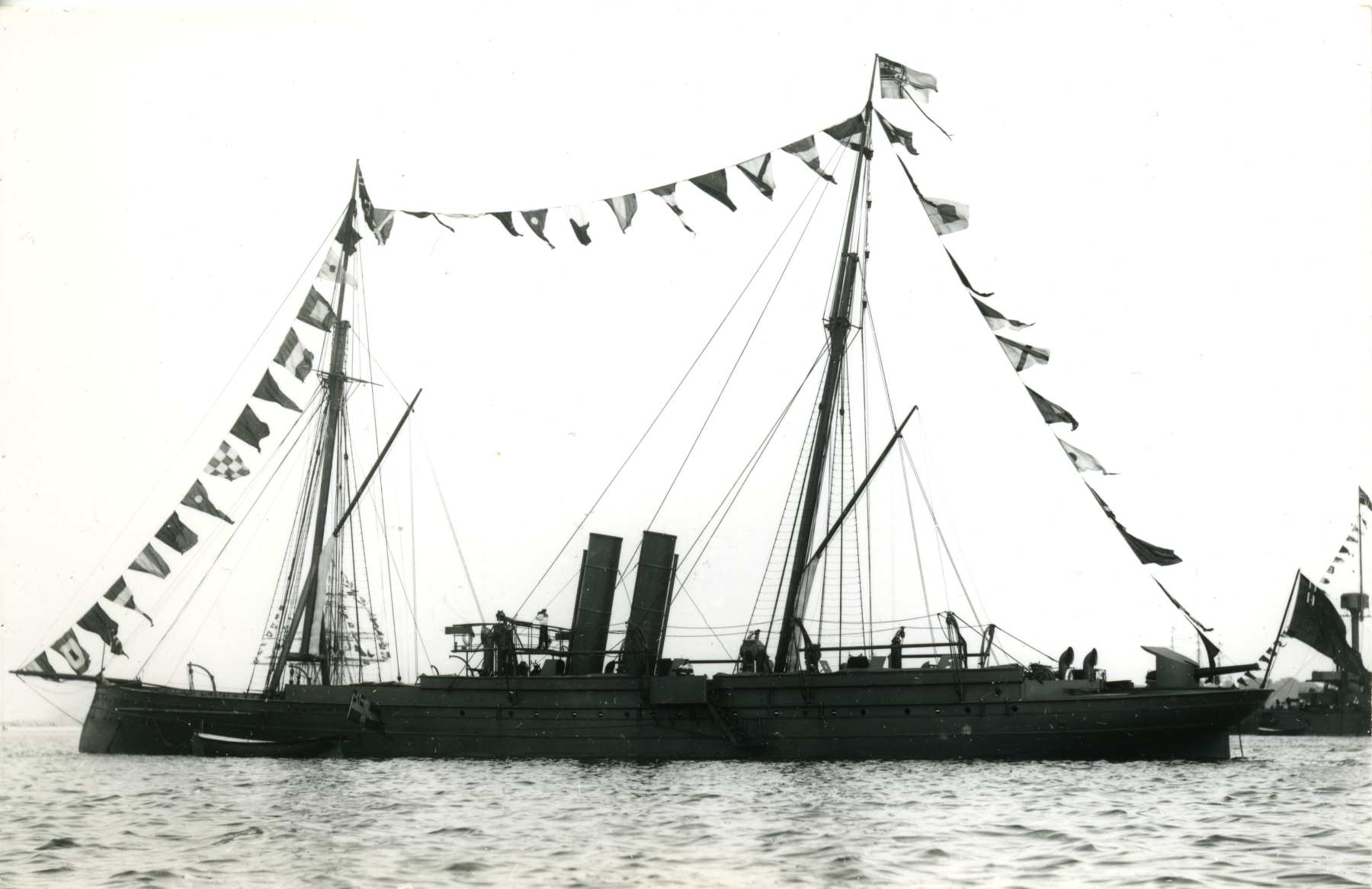 The Swedish gunboat HMS Edda 1895. Big flagging. Probably the coastal defence ship HMS Svea in the background. From Curt S. Ohlsson's collections.